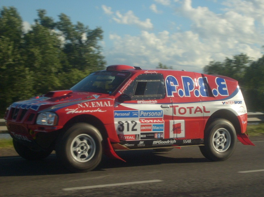 Rally Dakar 2011 en Rosario, Argentina.